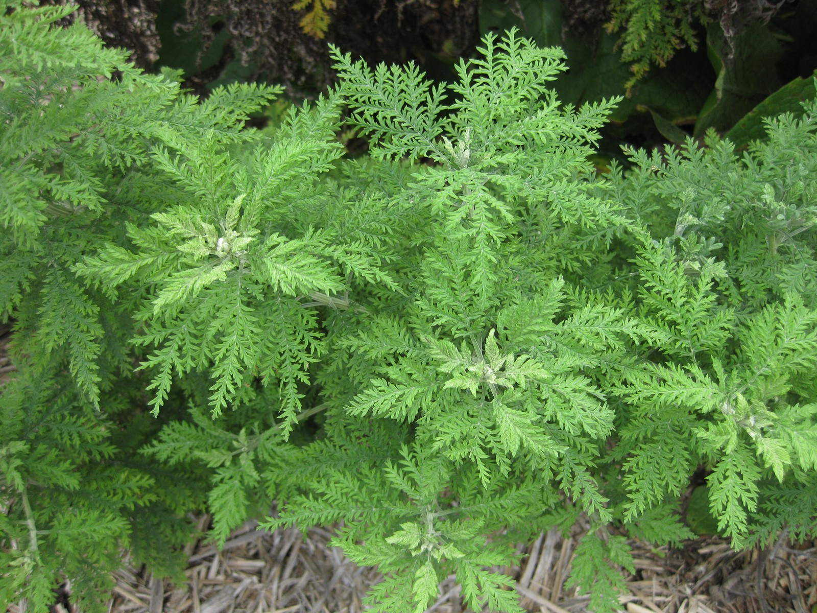 Photographed at the Royal Botanic Gardens Sydney (Australia) in January